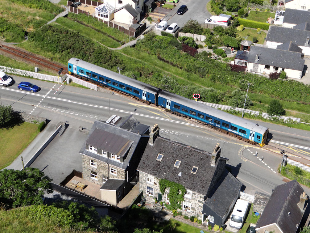 The level crossing at Harlech seen from Castel Harlech.